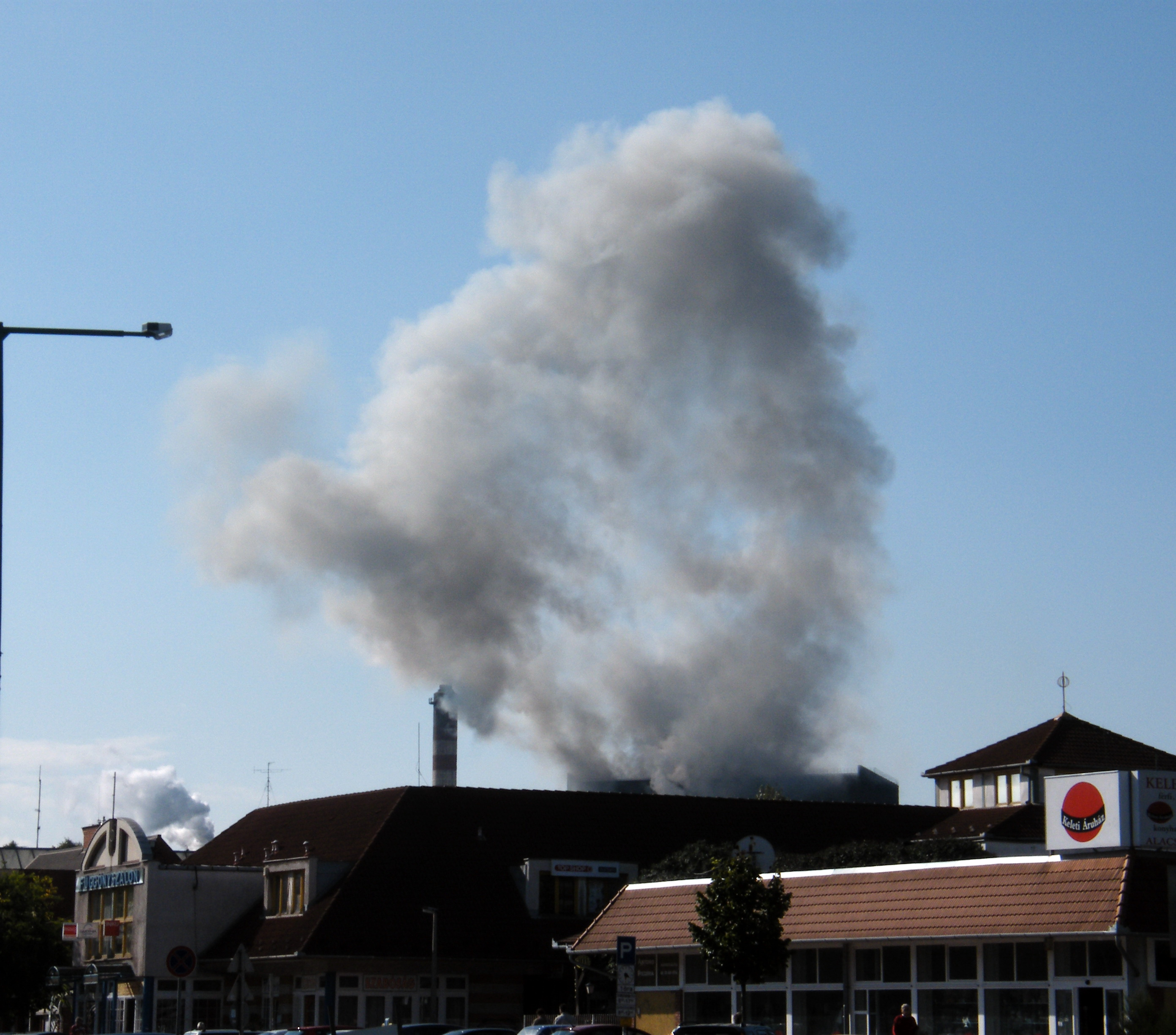 Dunaújváros, iron works smoke